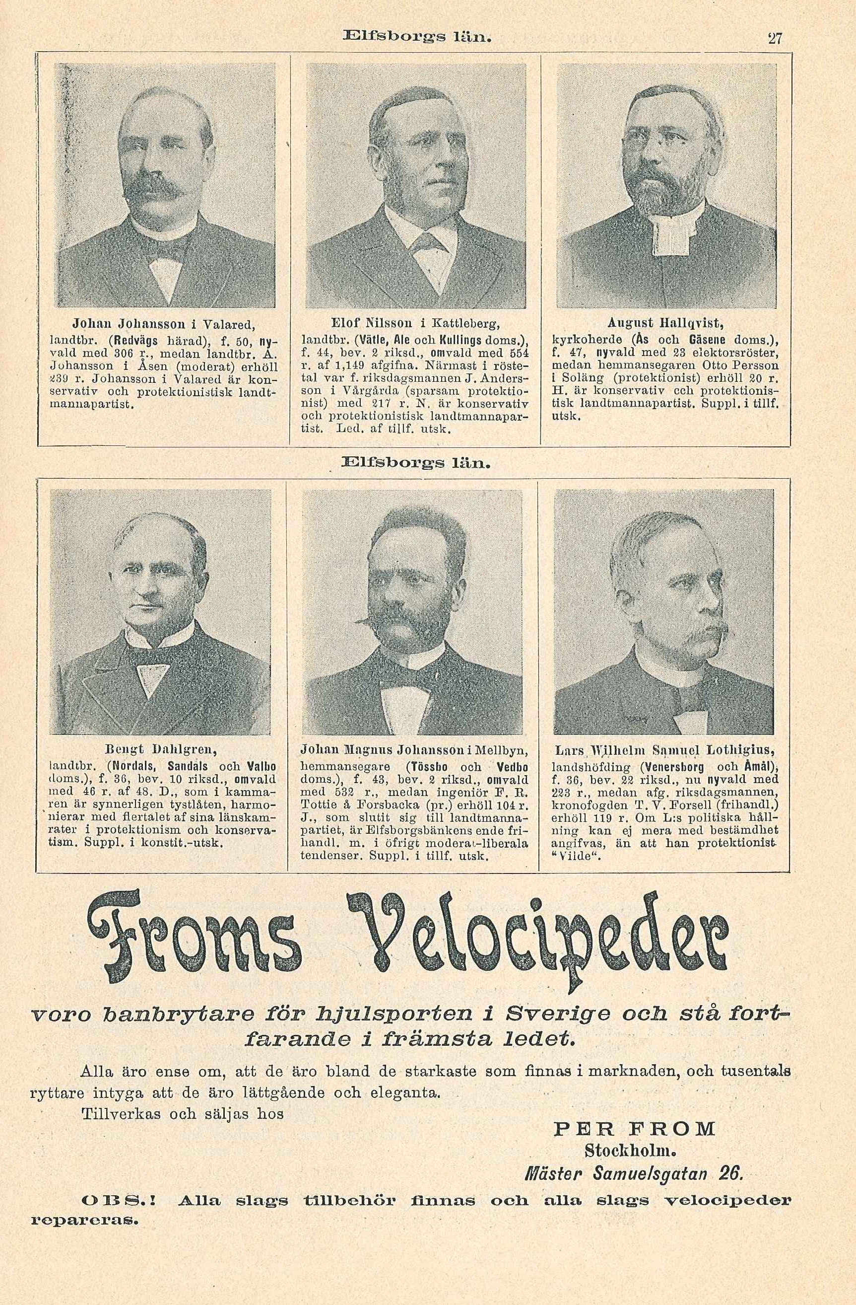 Page 27 of an album featuring portraits of all the members of the second chamber of the Swedish parliament (Sveriges riksdag) elected in 1897. This page featuring parts of the members representing the county of Älvsborg.